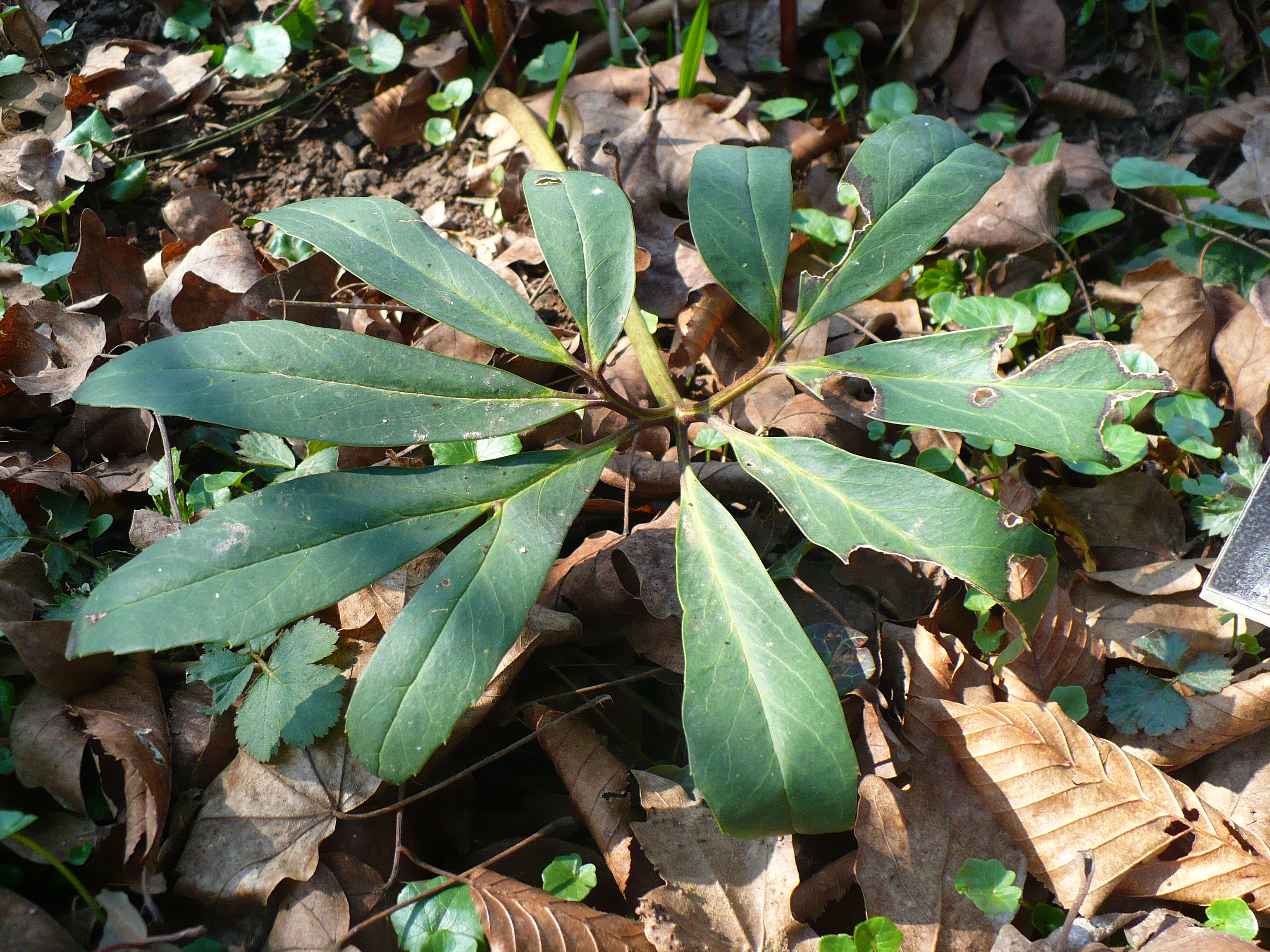 Helloborus niger leaves. Taken in the Chernel arboretum, Kőszeg, Hungary